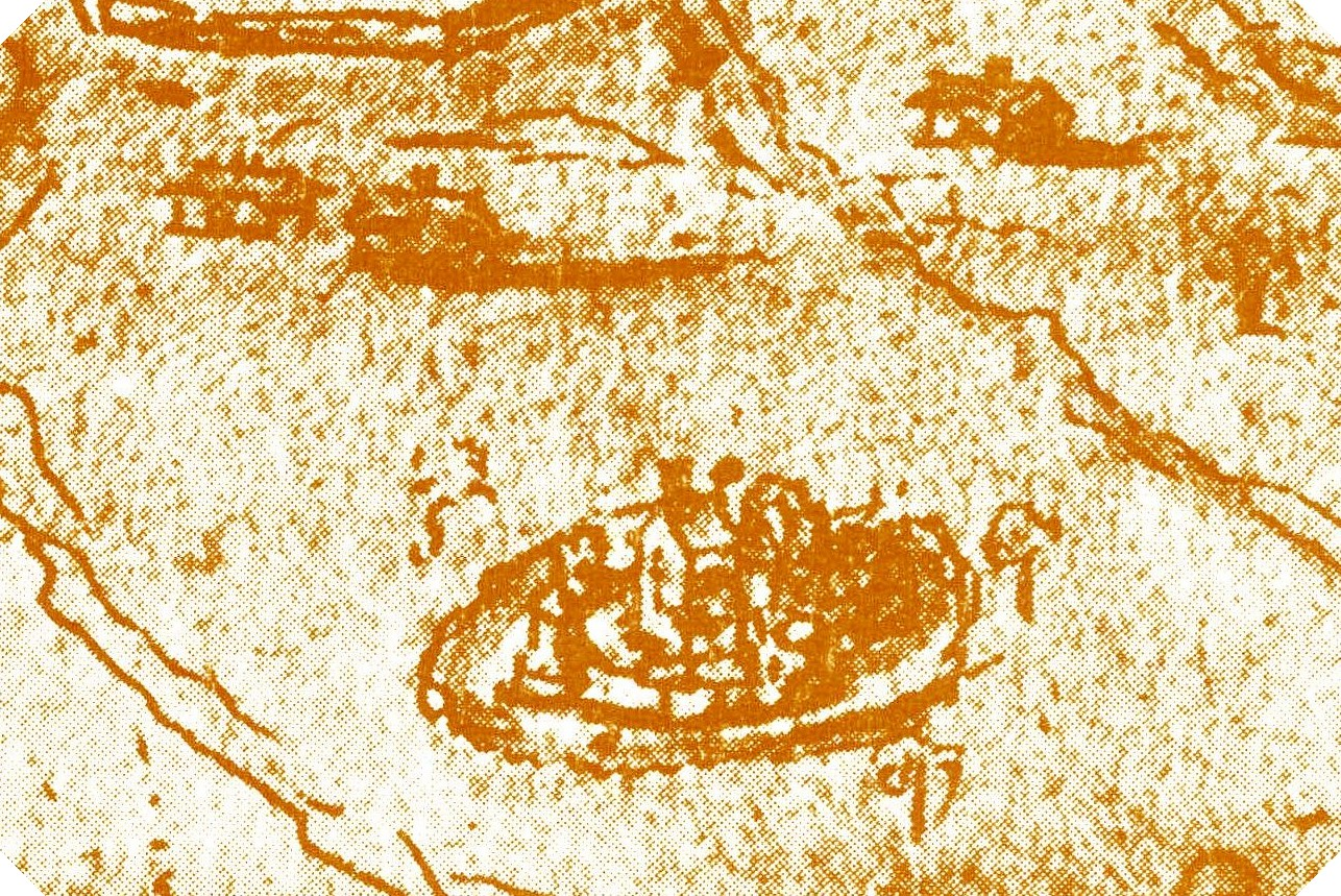 Drawing by Francois Horenbault of Torenberg Castle near Zaamslag in the year 1569.